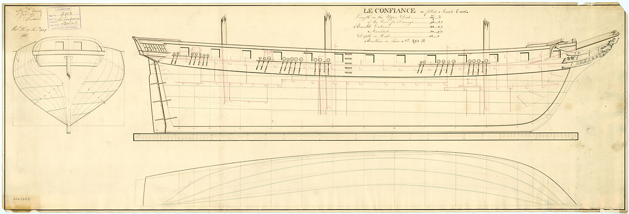 CONFIANCE FL.1805 [FRENCH] lines & profile